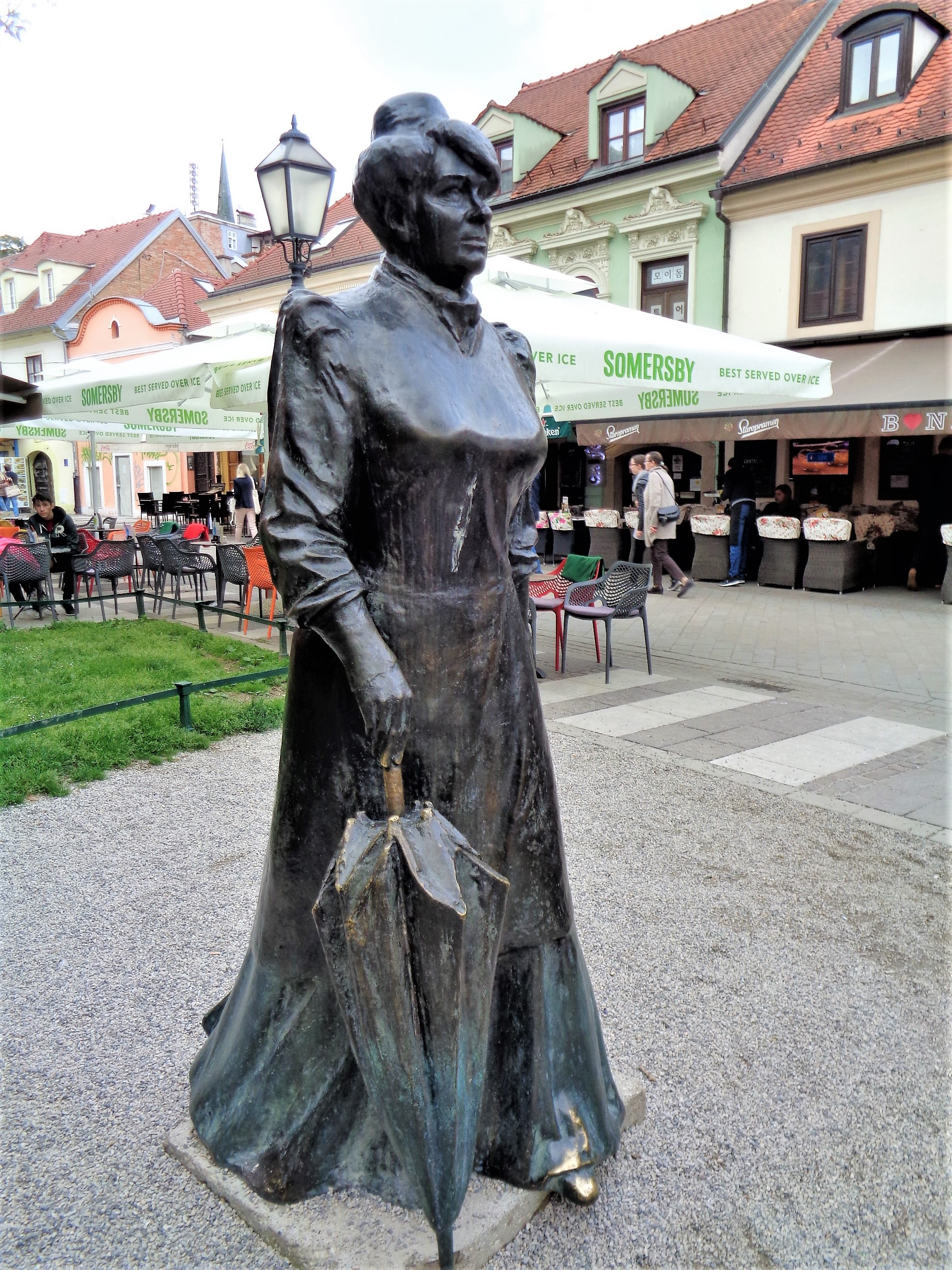 The statue of Marija Jurić Zagorka in Tkalčić Street in Zagreb, Croatia